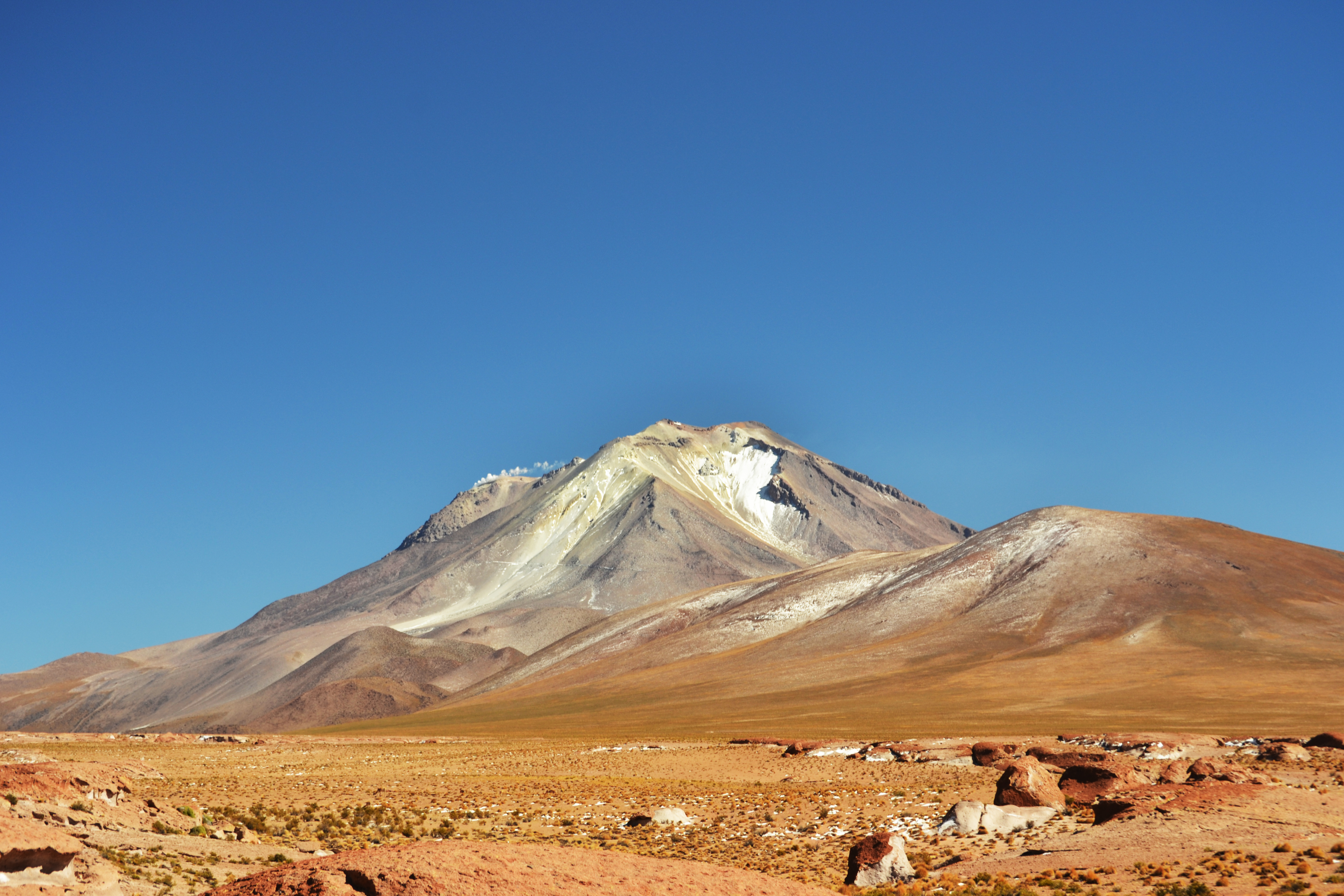 Uyuni, Bolivia